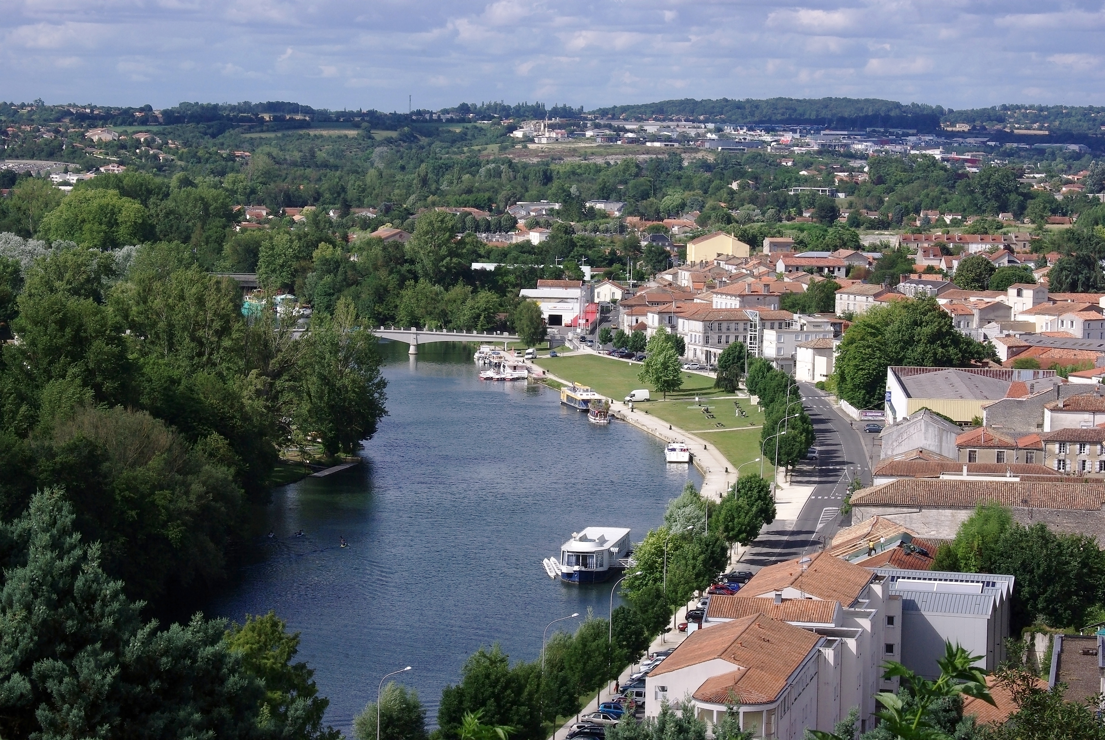 The river Charente at L'Houmeau, seen from the ramparts of Angoulême, France.